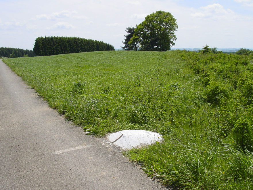 The summit of Kneiff. Photograph taken by David Edgar on 4th June 2006.